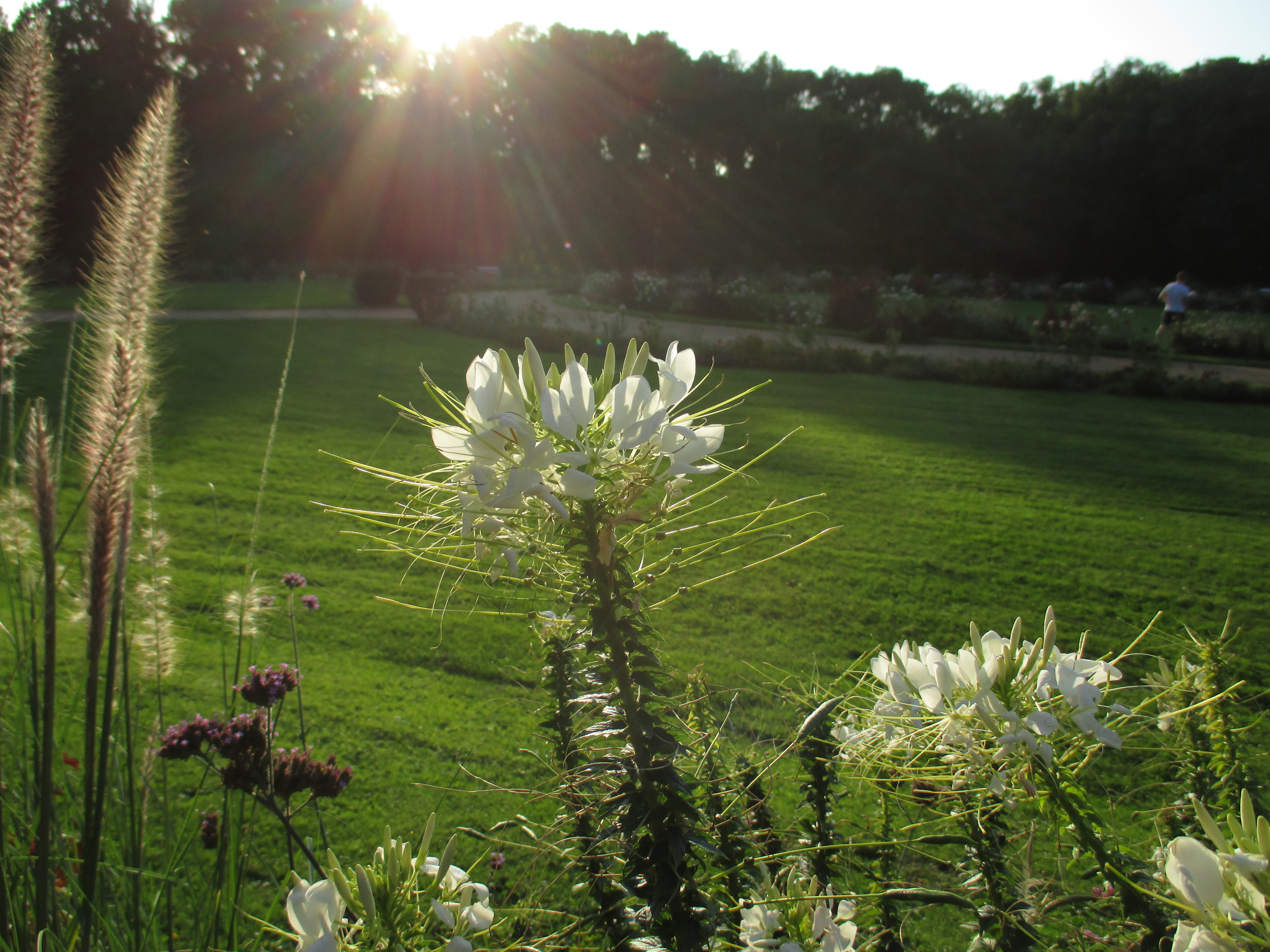 Flowers on Margaret island